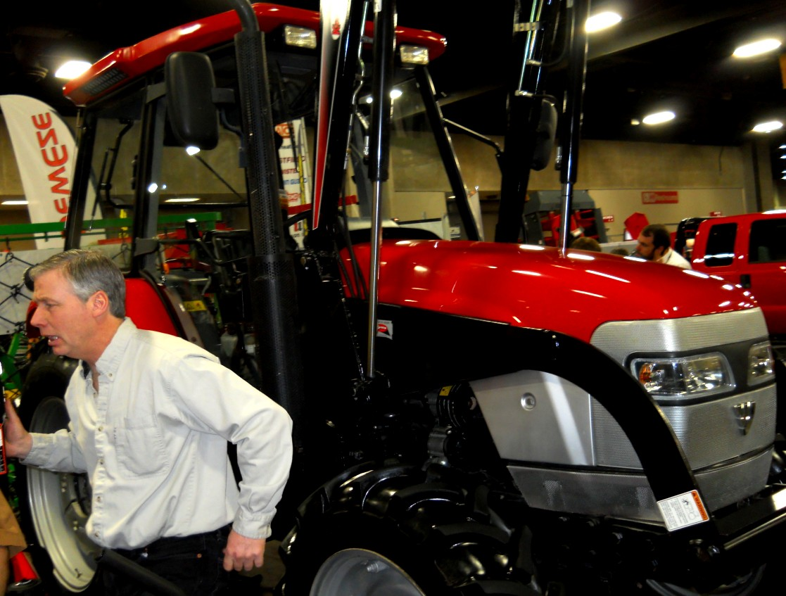 2011 National Farm Machinery Show, Louisville, KY